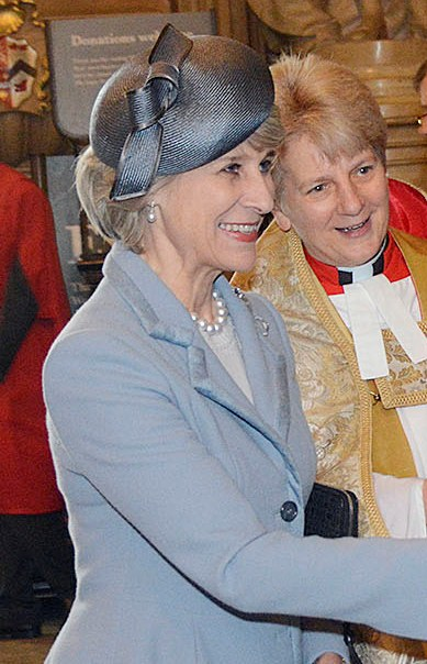 The Duchess of Gloucester visiting a church